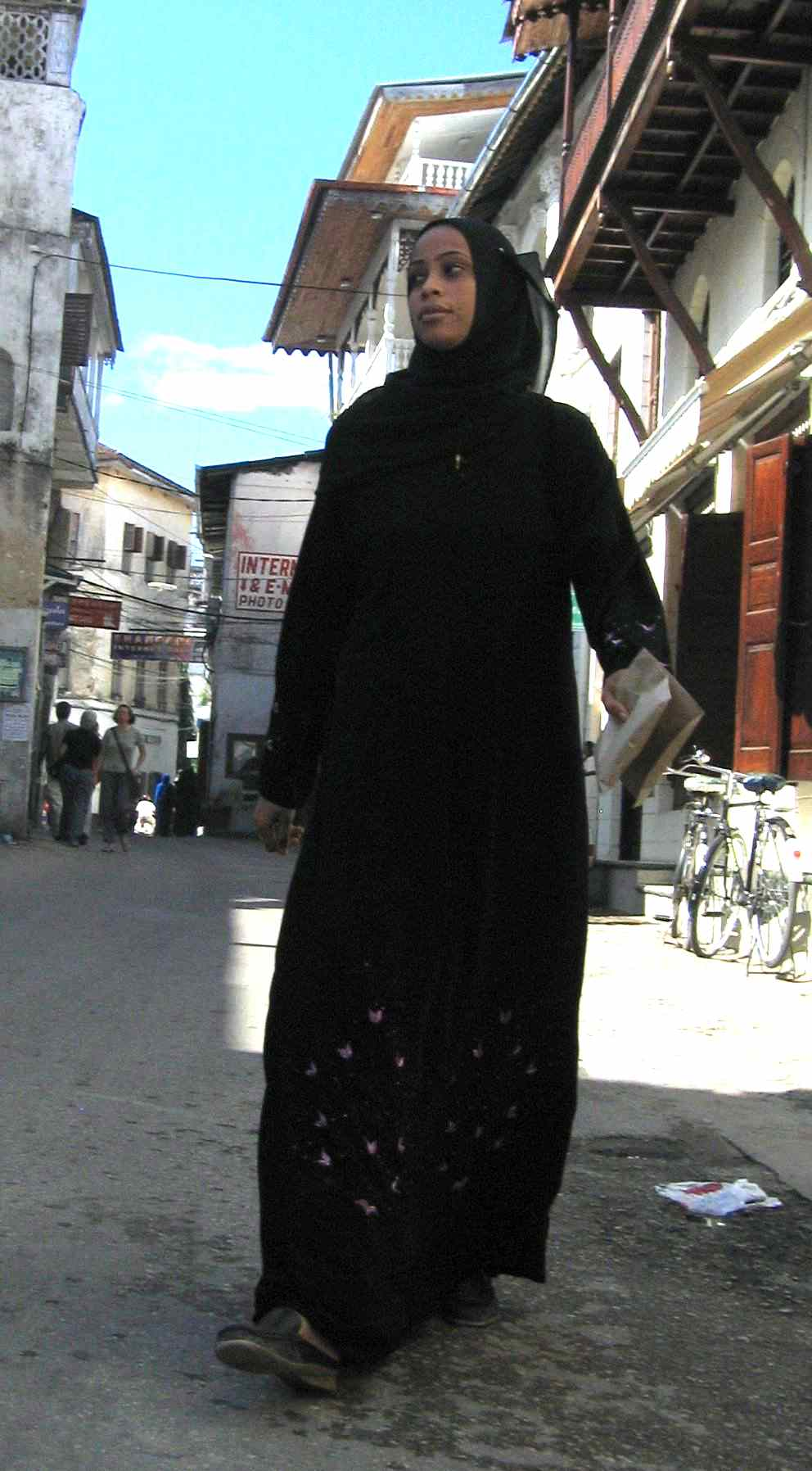 Lady wearing Jilbāb in Zanzibar. This is a pic of a girl walking down the main strip in Zanzibar. The locals have incredible features - you can tell that over generations, they have gained mixes of African, Arab, and possibly even Indian features - makes them very exotic looking. Lady wearking jilbāb Zanzibar (cropped from original)